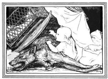 An illustration of the fairy tale Beth Gellert created by John D. Batten for Joseph Jacobs' collection Celtic Fairy Tales.